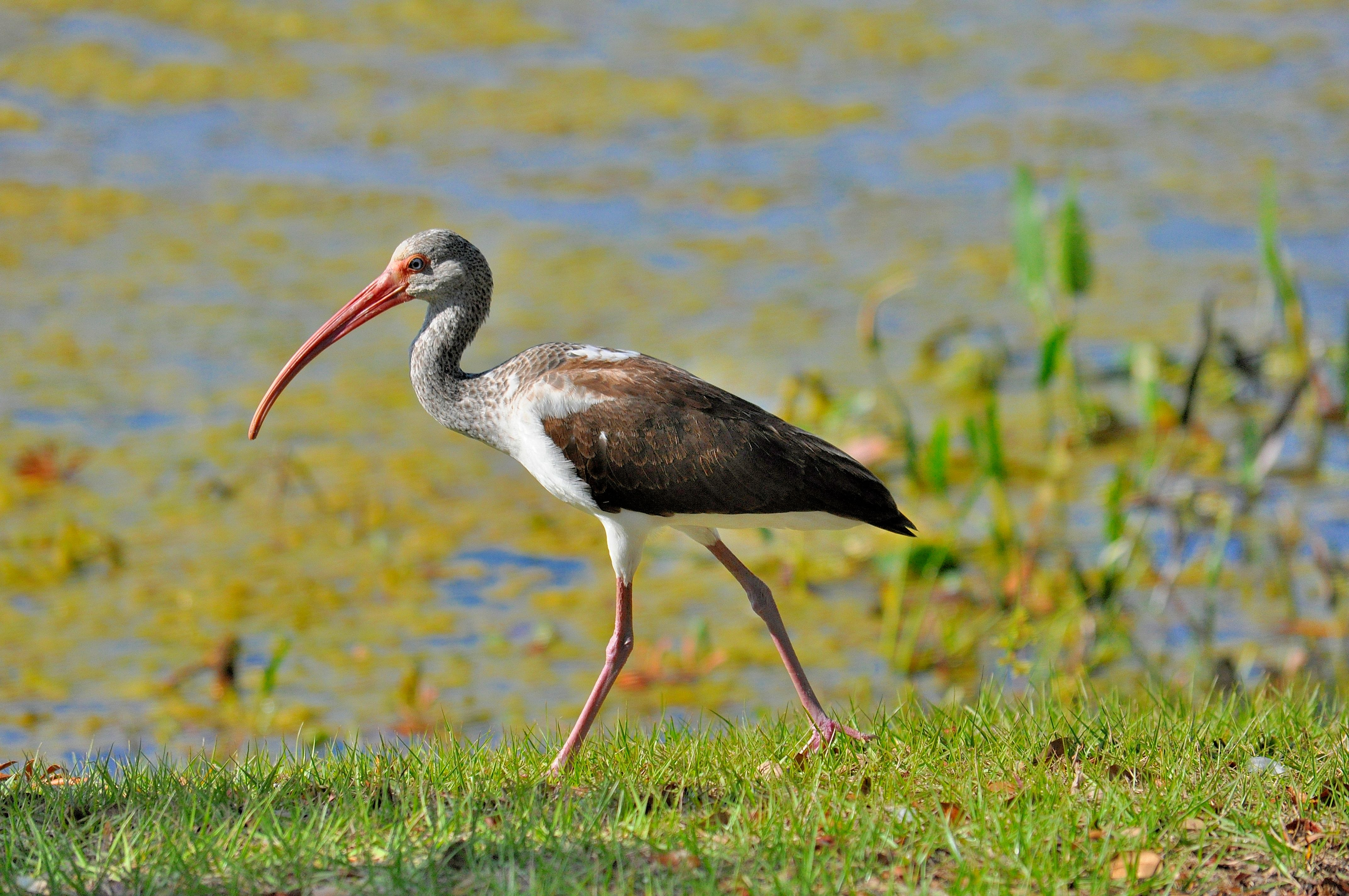 A juvenile American White Ibis in Winter Haven, Florida, USA.